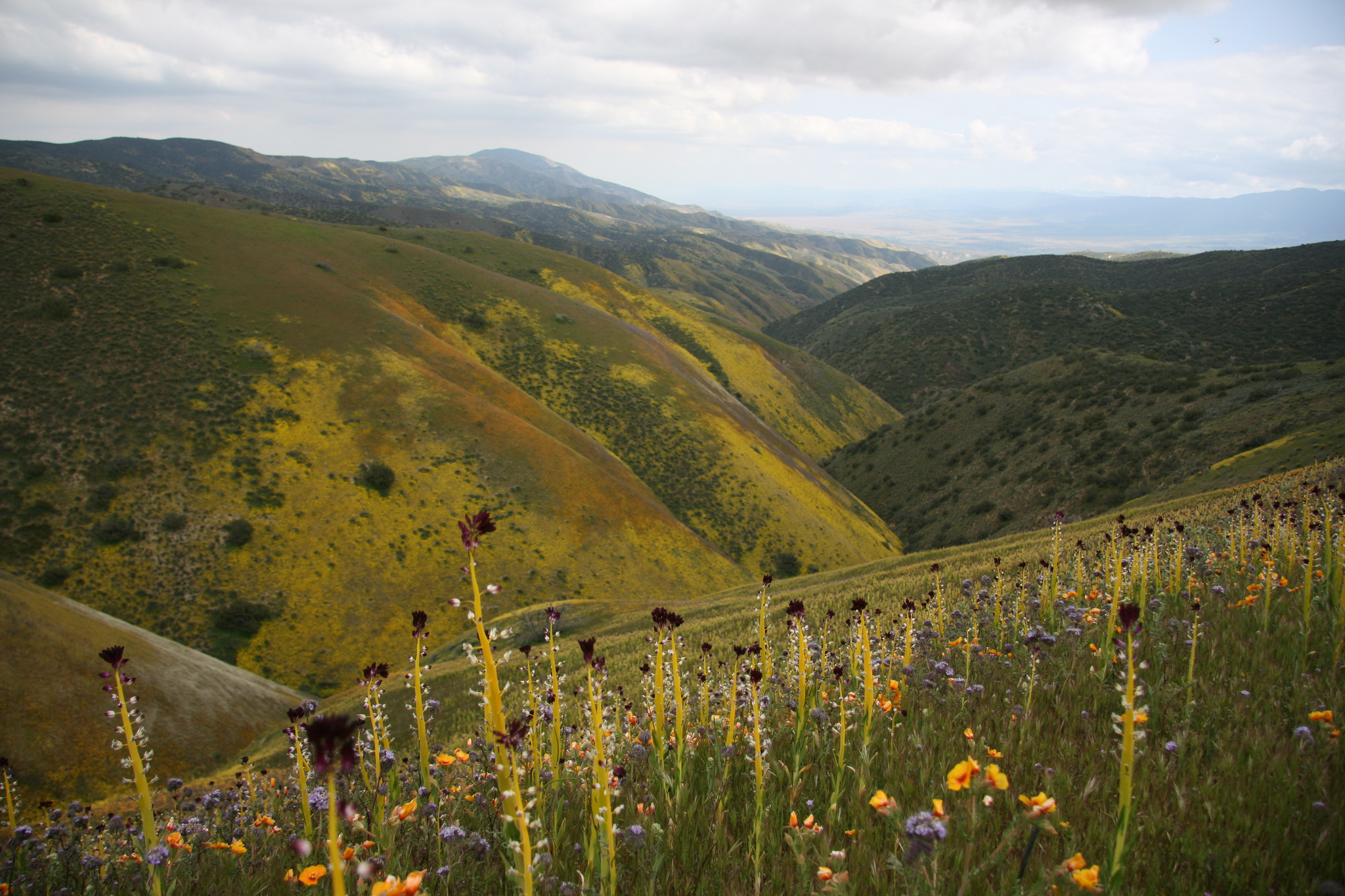 Known for its beautiful wildflowers, this monument within the BLM’s National Conservation Lands offers so much more. Soda Lake - its centerpiece - is a glistening bed of white salt set within a vast open grassland, rimmed by mountains. The area has been shaped by the San Andreas fault, which can be seen in a subtle alignment of ridges, ravines, and normally dry ponds. And Carrizo Plain is home to many animals with sensitive status. Tule elk and pronghorn antelope have been reintroduced into the area and can be seen at various locations on the plain. Many raptors - including redtail hawks, golden eagles, kites, harriers, and owls - can be found all year. Visitors can take great hikes on walking trails, and explore rock art, geologic formations, historic buildings and ranches, and so much more! This road trip stop is a must for your bucket list - it really does have something for everyone. Photo by Bob Wick, BLM